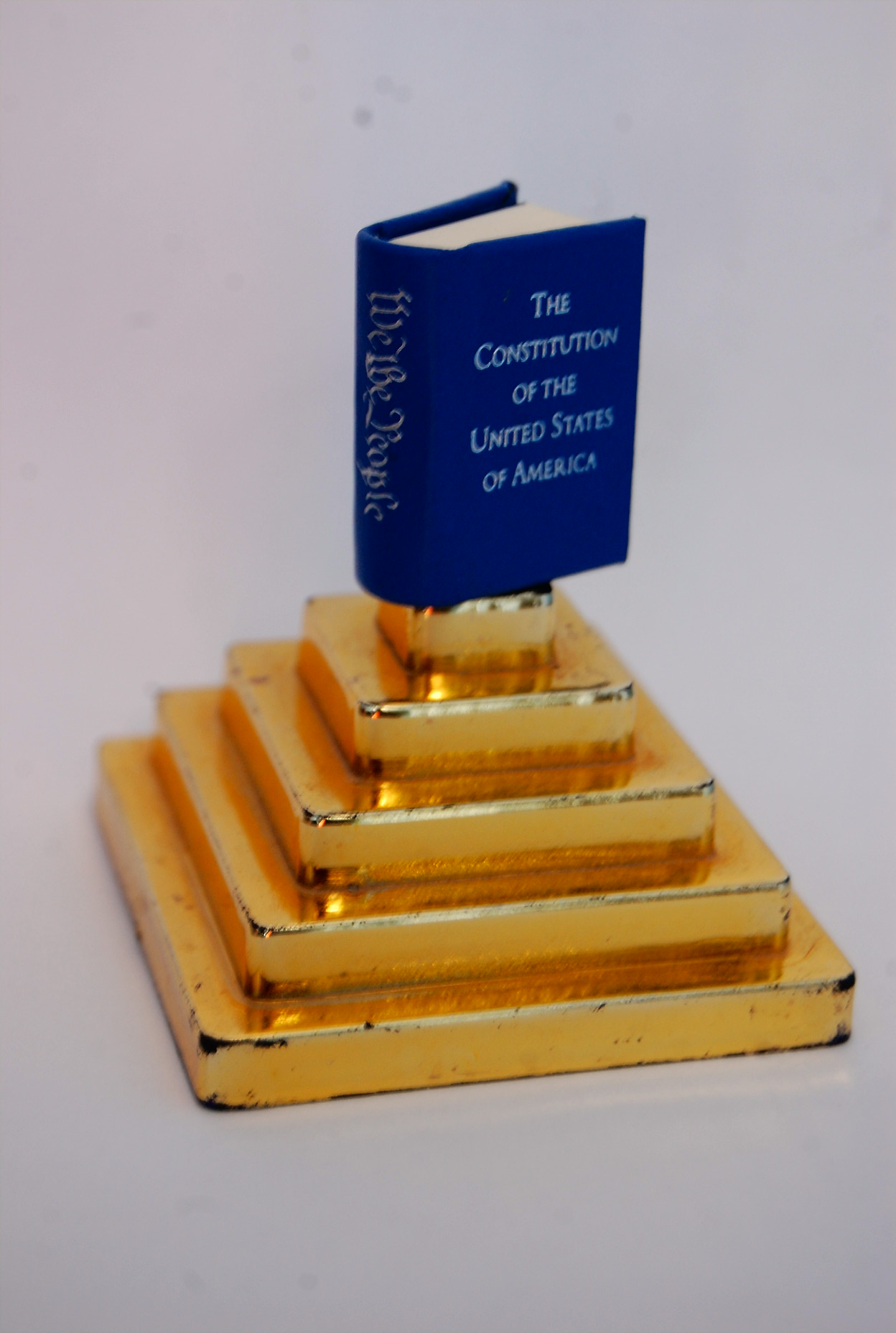 The Constitution of the United States miniature version